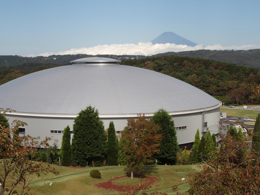 Izu Velodrome in Izu, Shizuoka Prefecture, Japan. Mount Fuji in the background.